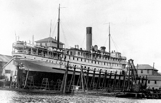 Steamship Princess Royal on shipway at Victoria (British Columbia) Machinery Depot